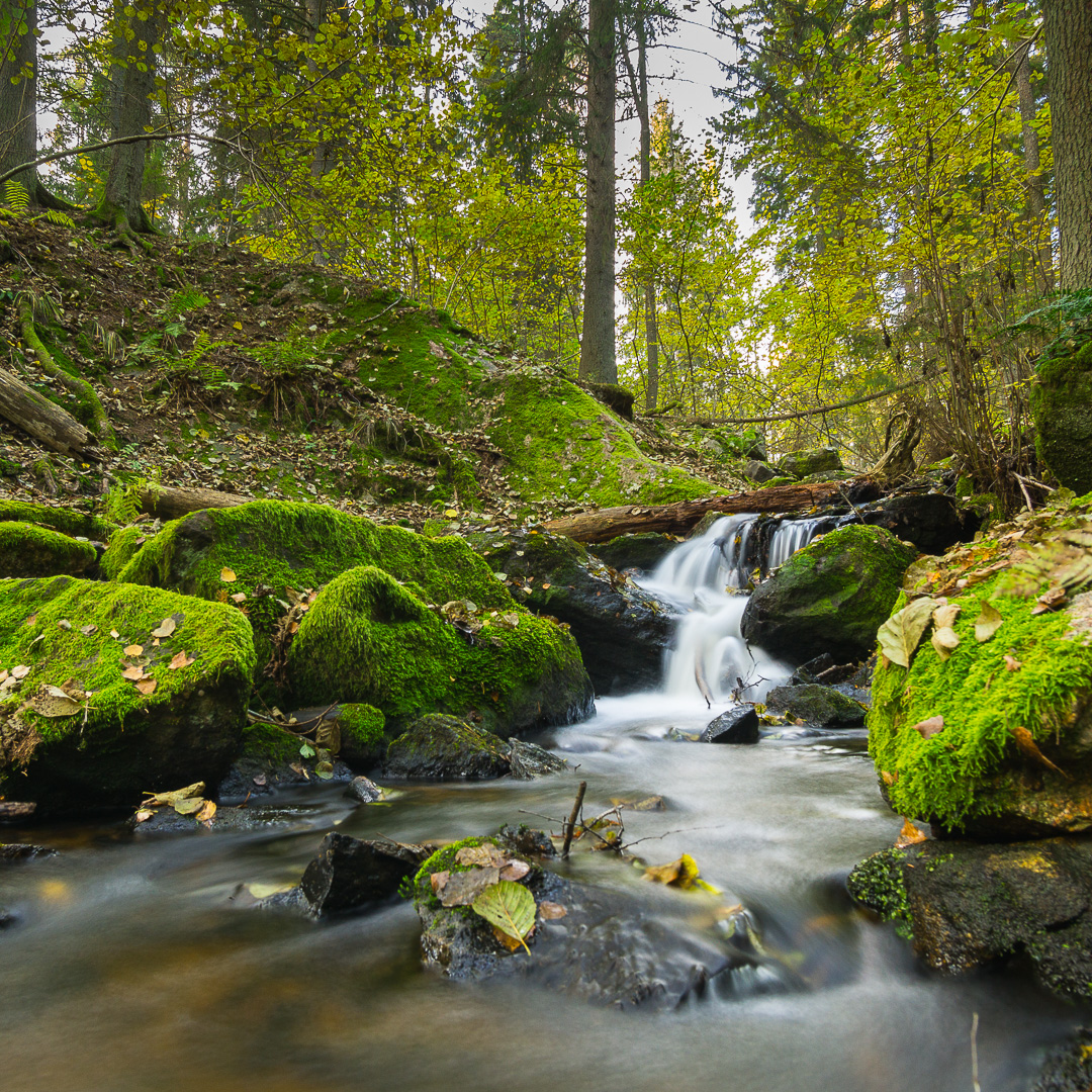 Small waterfall on the Åvaån river in Tyresta national park